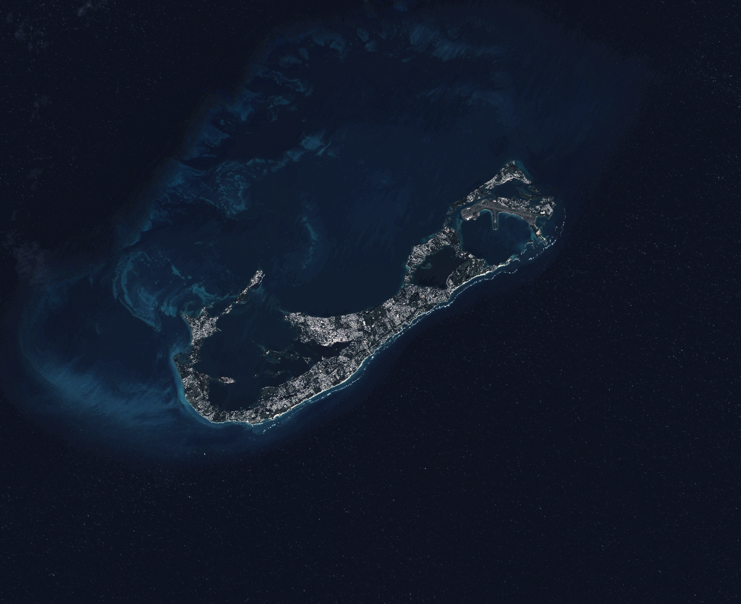 Satellite picture of the Bermuda Islands (Landsat 8)